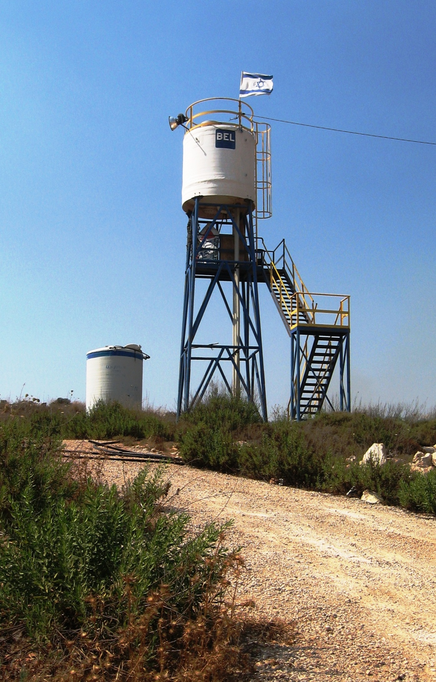 Nofe Nechemia